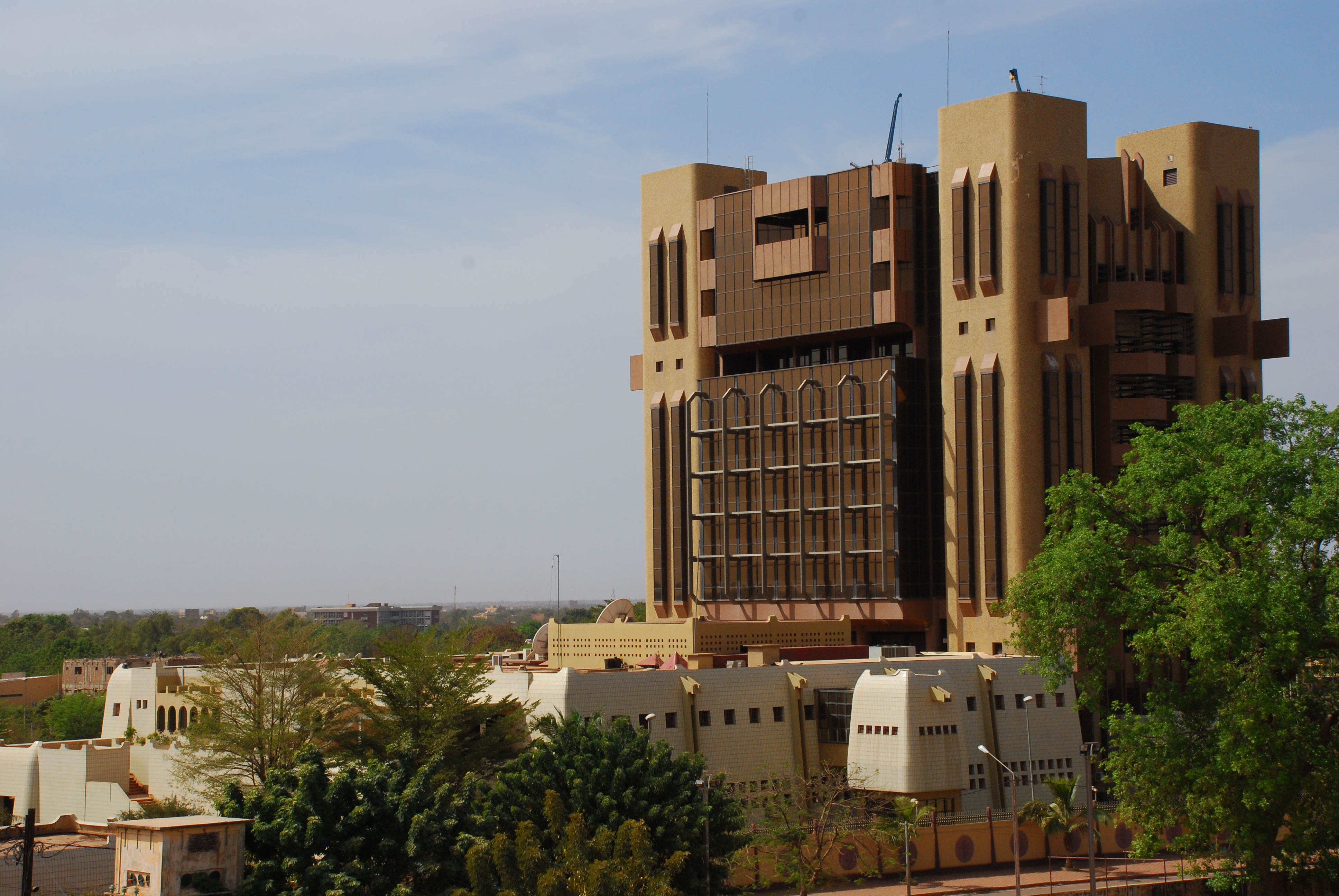 BCEAO building, Ouagadougou, Burkina Faso, West Africa (from roof of the Amiso hotel)